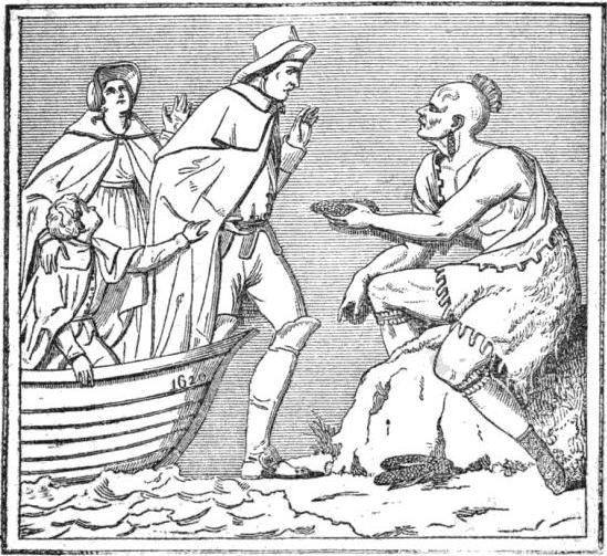 "Landing of the Pilgrims"